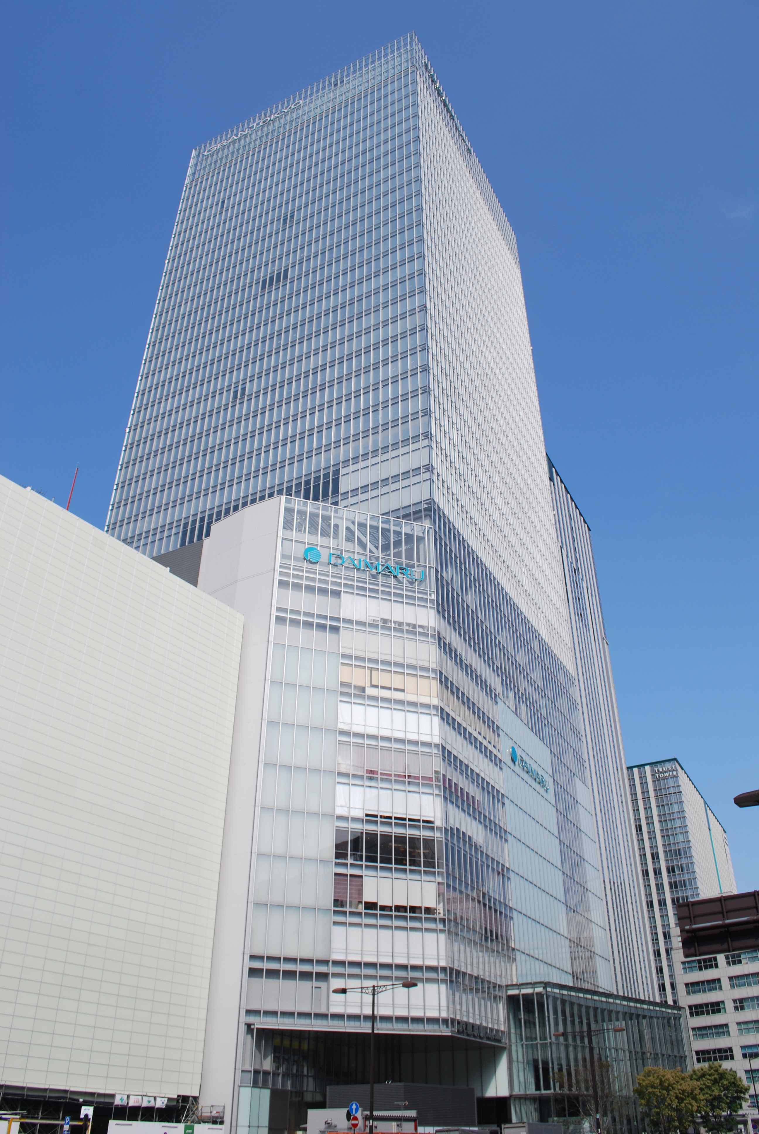 GranTokyo north tower,chiyoda-ward,japan